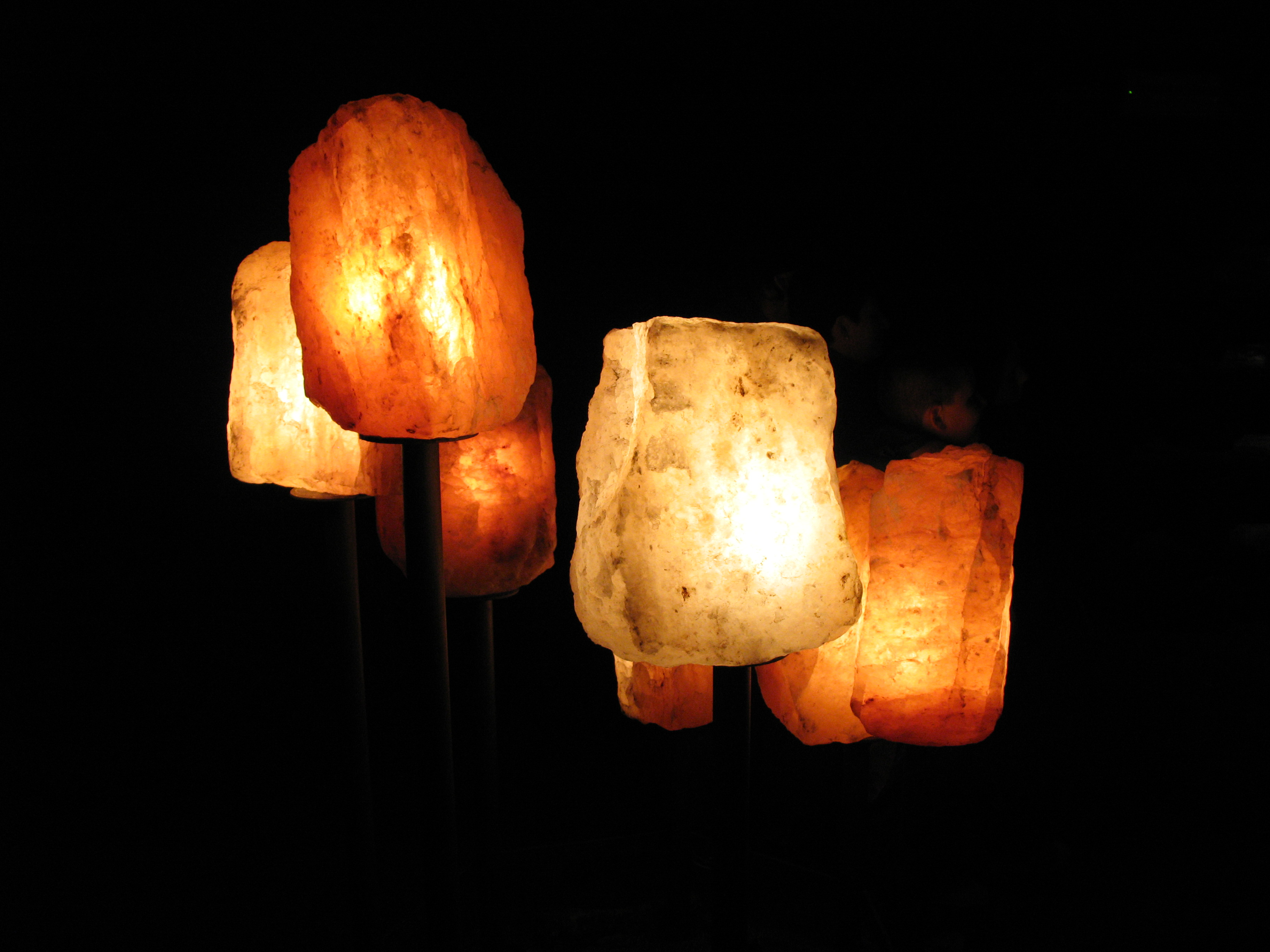 Luminaires. Lanterns made of salt blocks in the Salt Mine, Hallstatt, Austria